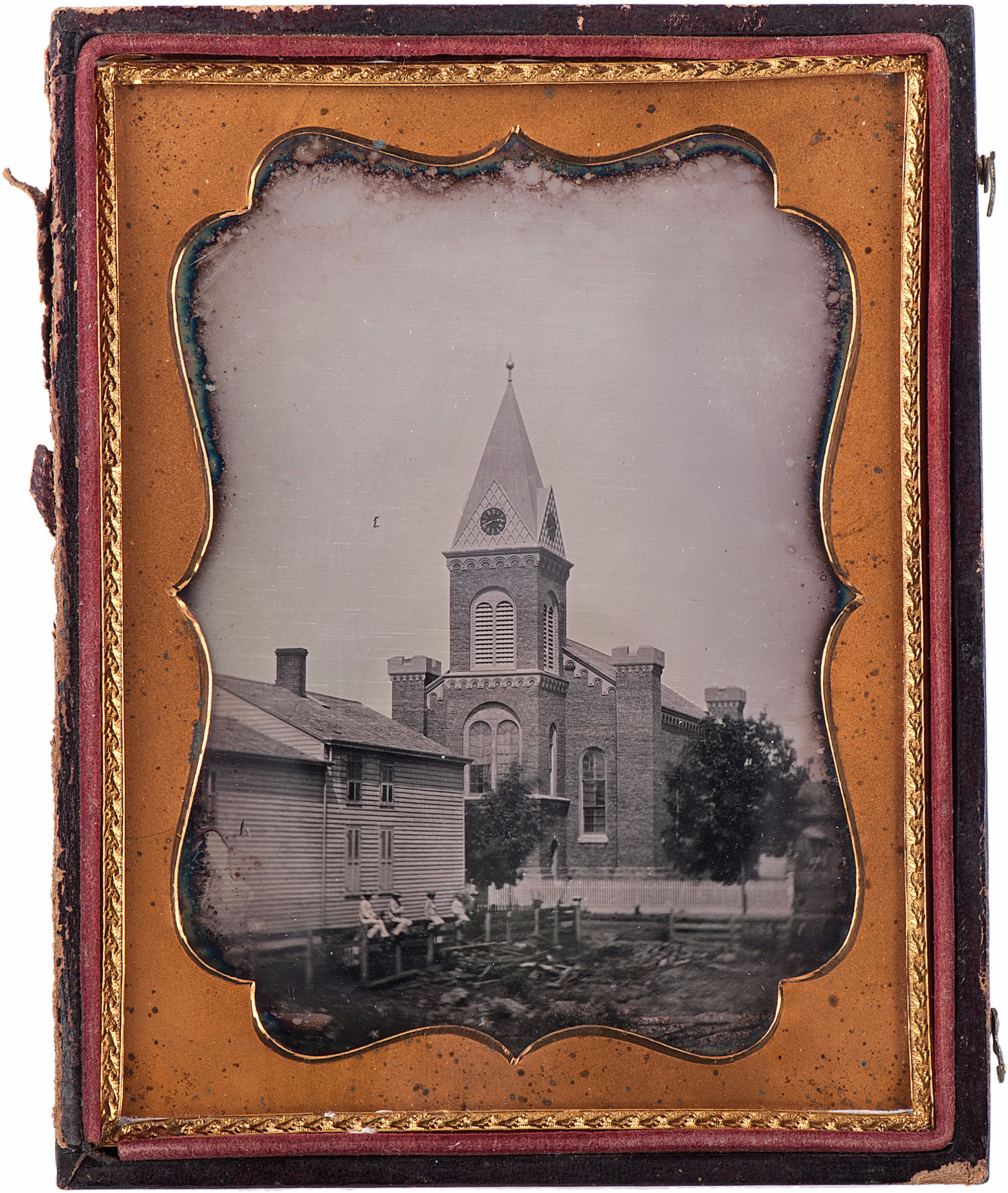 Half plate daguerreotype of the First Presbyterian Church in Niagara Falls, NY. Housed in half, pressed paper case. In the foreground, a group of people, possibly children or young adults, uniformly dressed in white sit atop the rail of an unfinished fence.